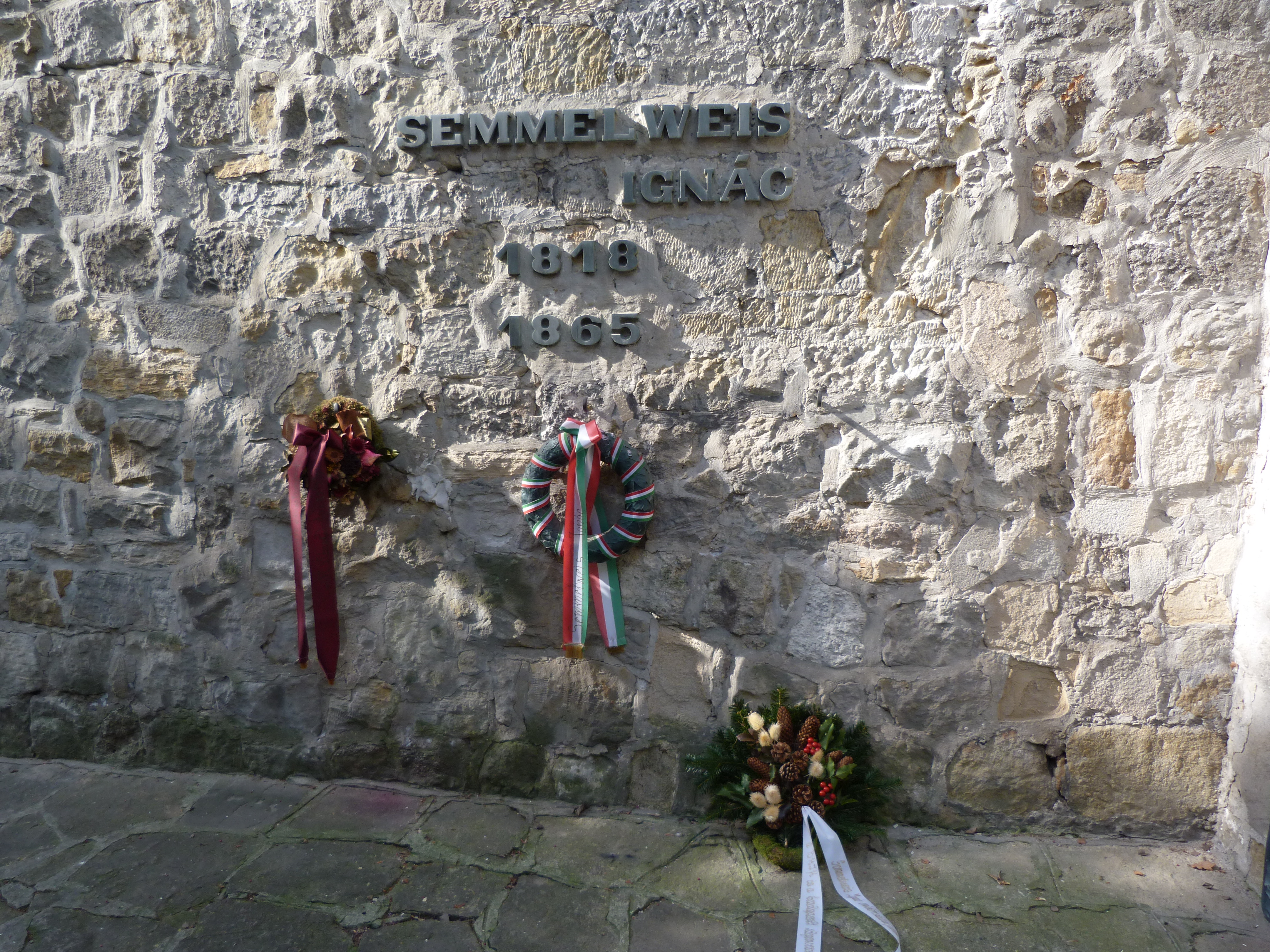 Tomb of Ignác Semmelweis in the courtyard of his birthplace, now the Semmelweis Museum of Medical History. This is the fifth burial place of the famous doctor, established in 1965 when his remains were buried in the stone wall of the courtyard. - 1-3. Apród utca, District I., Budapest, Hungary.